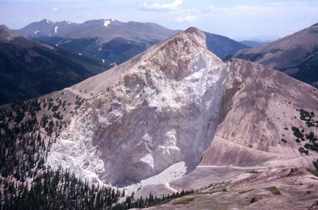 Glory hole at the Henderson molybdenum mine, Clear Creek County, USA